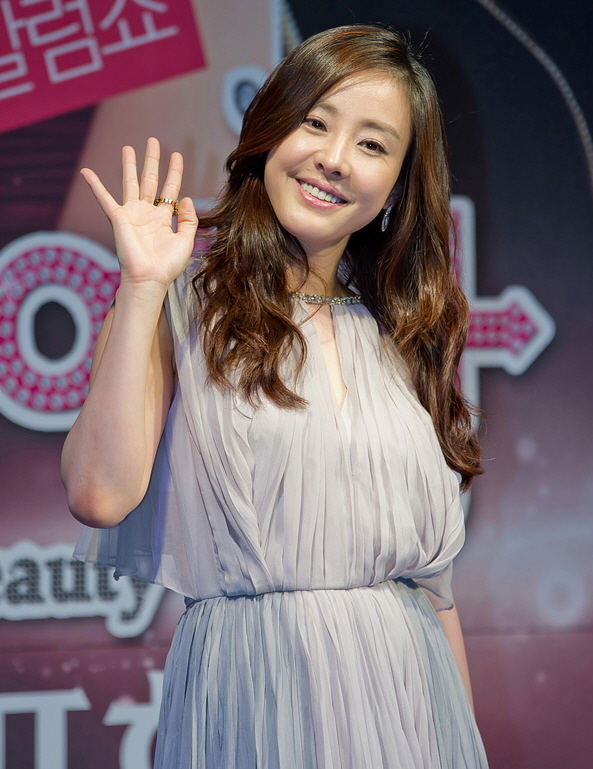 Park Eun-hye at Queen of Beauty (KBS Drama, 2012) premiere, on March 5, 2012